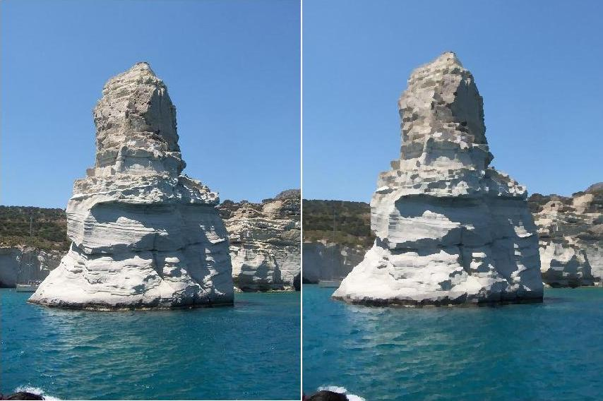 Kuwahara filter used to create painting like effect from photograph.